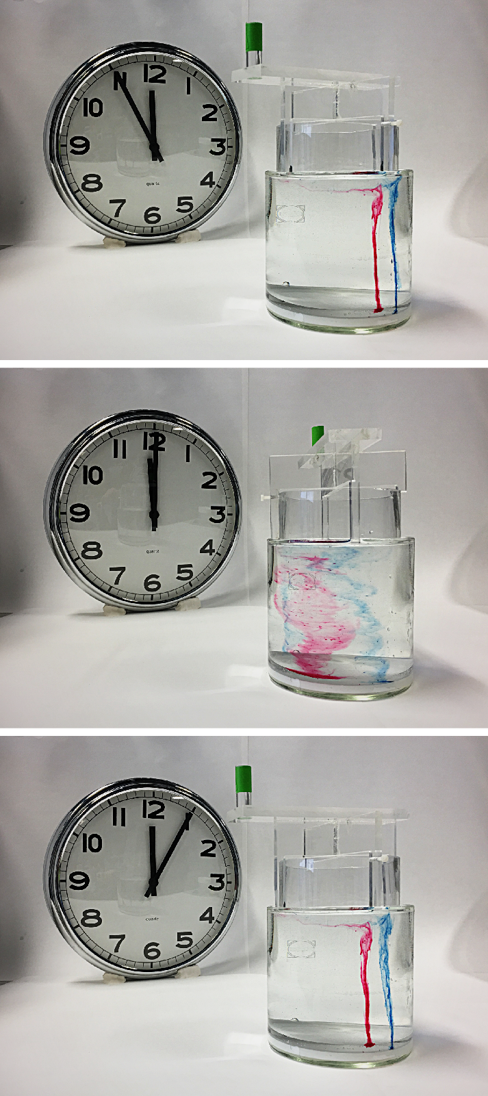 The injection of a dye in a viscous fluid sandwiched between two concentric cylinders (top panel). The core cylinder can be rotated to generate a shear forces resulting in the flow of the fluid and the dye getting mixed with the fluid (middle panel). The rotation then reversed bringing the cylinder to its original position. The dyes "unmix" to their initial position. The unmixed state is not perfect due to process diffusion of dye.